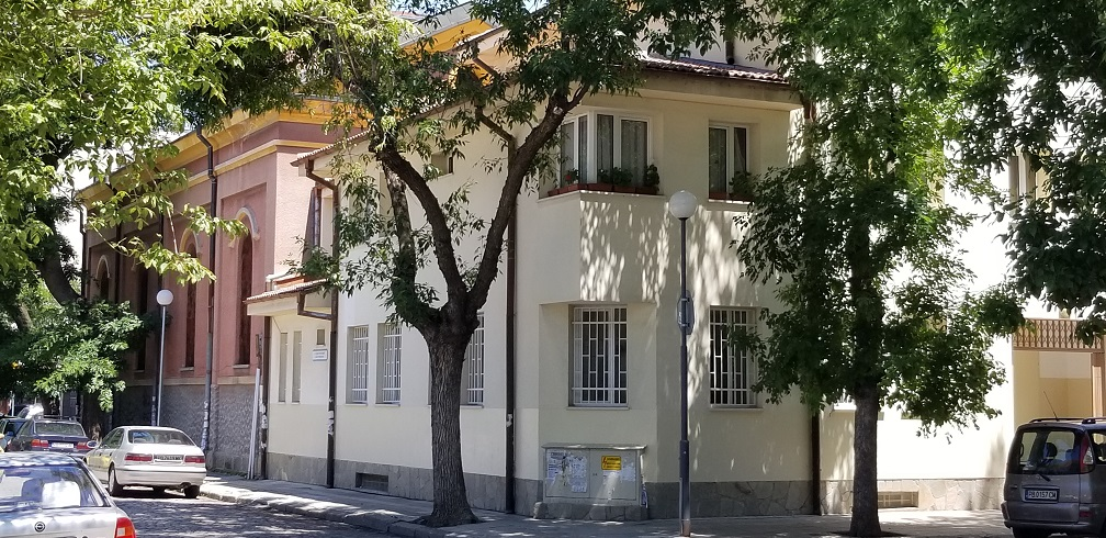 Church Our Lady of Lourdes, Plovdiv